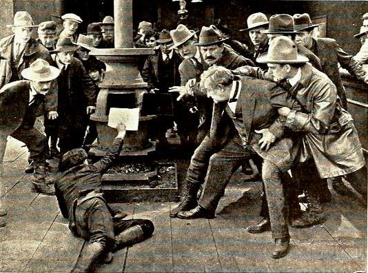 Still from the American film The Girl from Outside (1919), on page 1079 of the August 2, 1919 Motion Picture News.